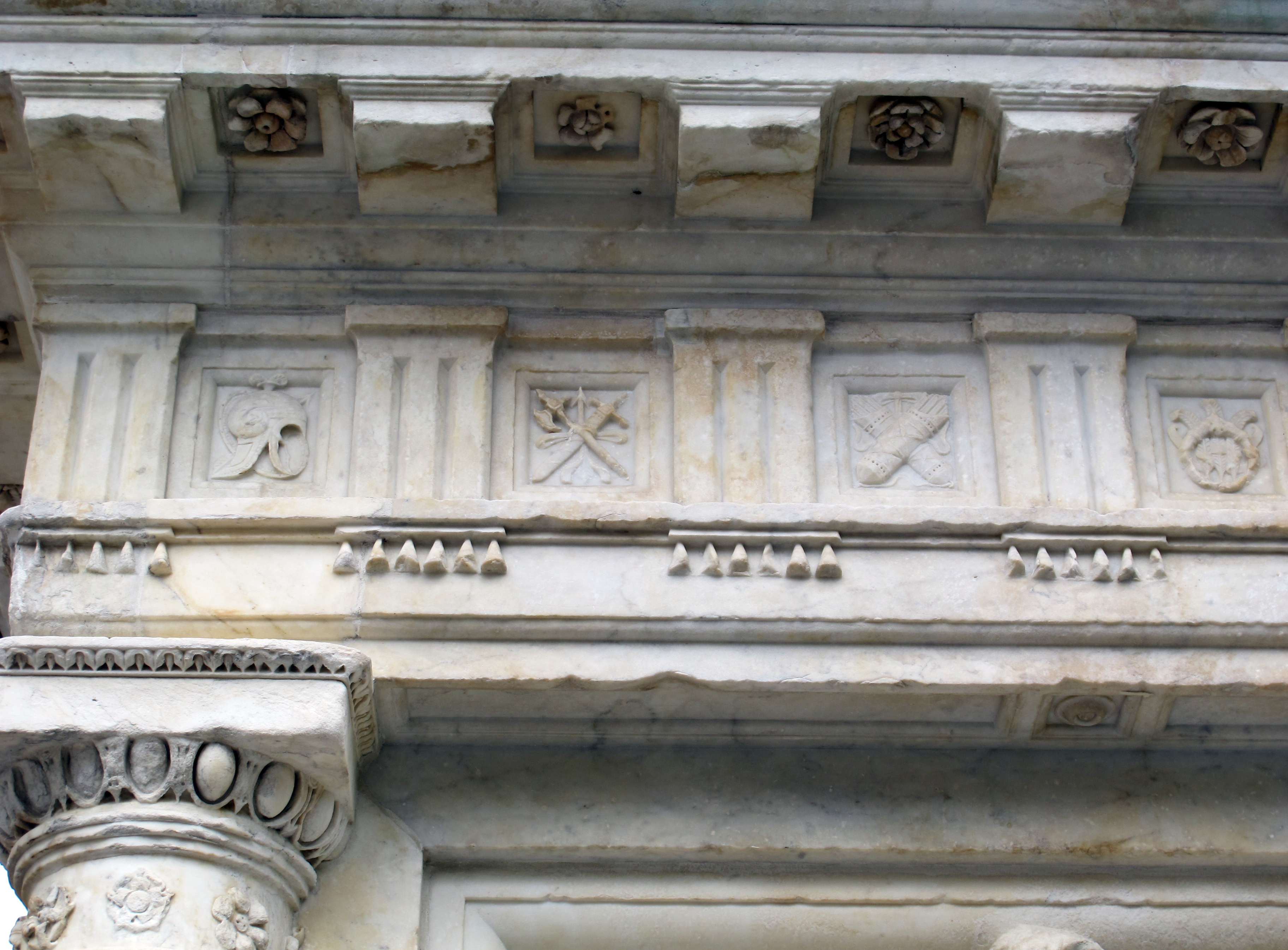 Monument to Giovanni delle Bande Nere (Florence)